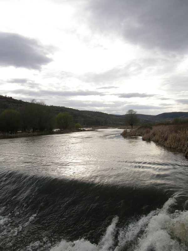 River Struma (Strymon) in Blagoevgrad, Bulgaria